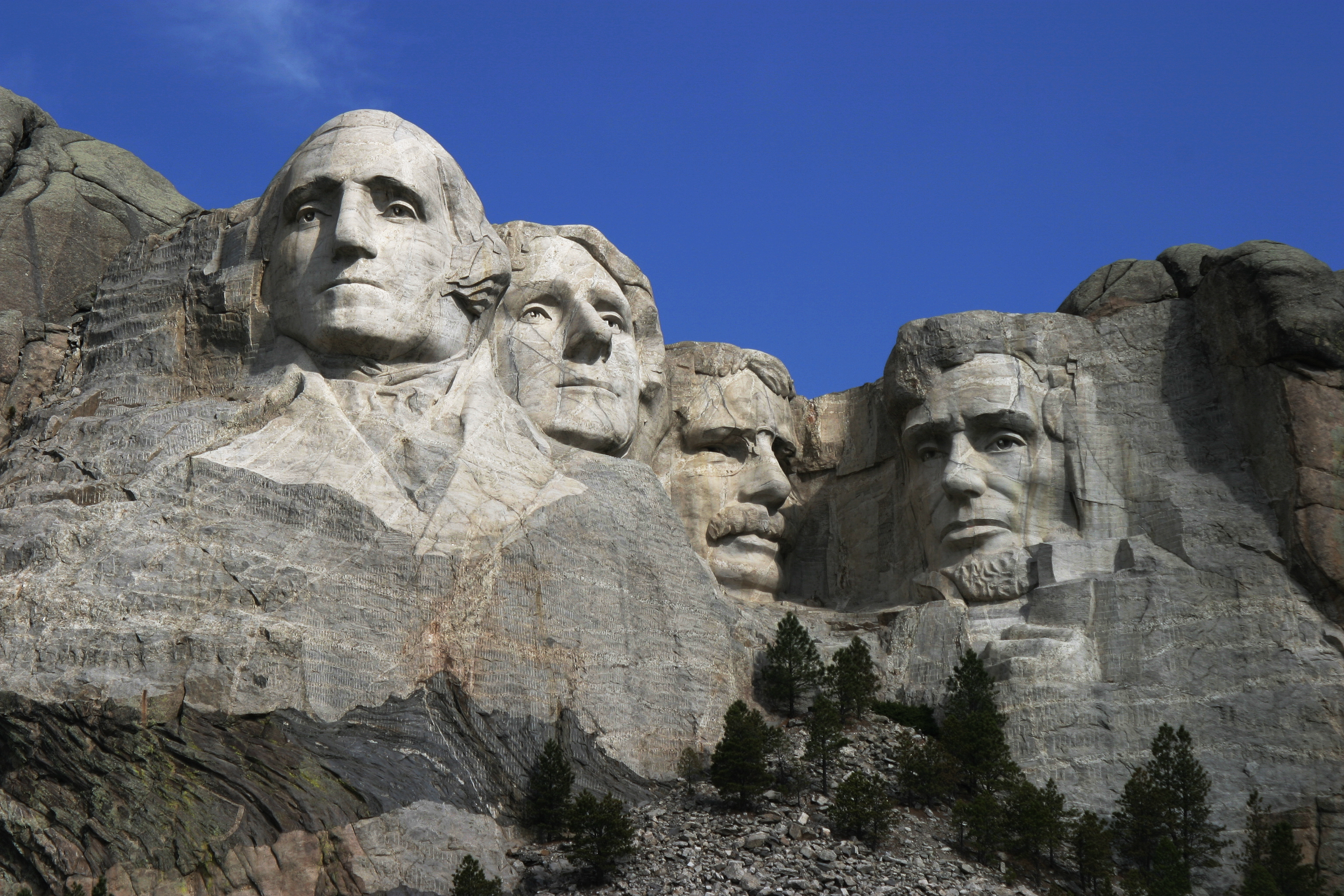 Mount Rushmore National Memorial, a granite sculpture by Gutzon Borglum, located near Keystone, South Dakota, United States. The sculture comprises the heads of former US Presidents (from left to right) George Washington, Thomas Jefferson, Theodore Roosevelt, and Abraham Lincoln.